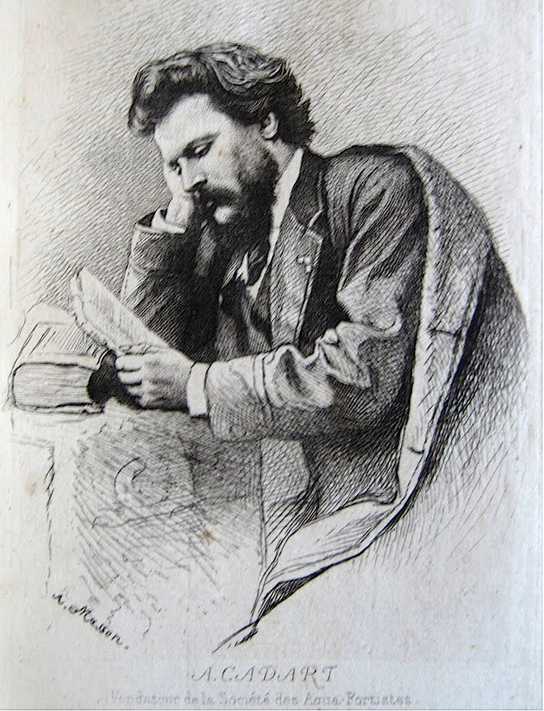 Alfred Cadart, etching by Alphonse Charles Masson (1814-1898), printed by Auguste Delâtre in Paris for Cadart & Luce's Catalogue.